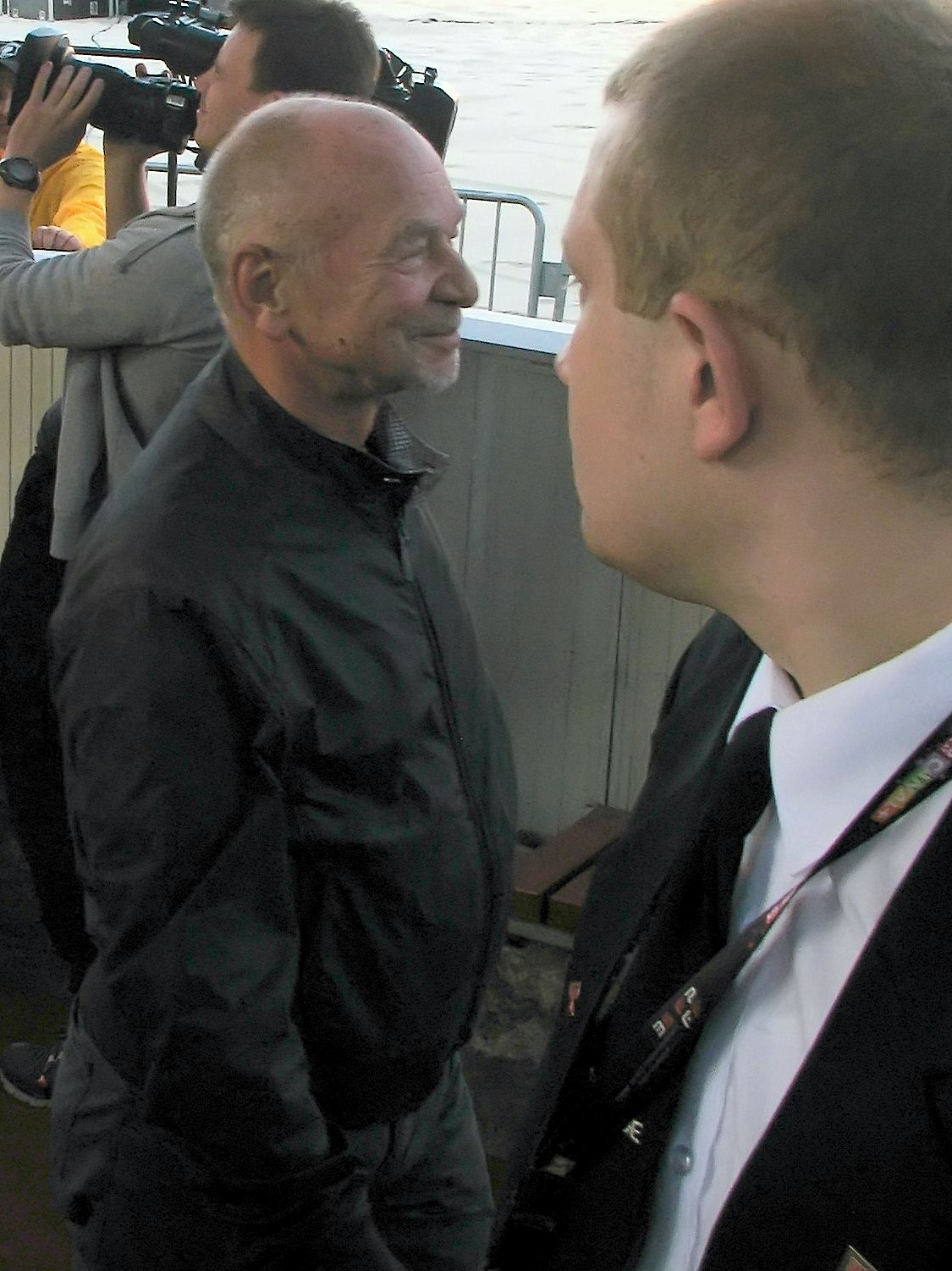 Ryszard Kotys at closing gala of the XXXV Polish Film Festival in Gdynia 2010. The tent was removed after the festival.